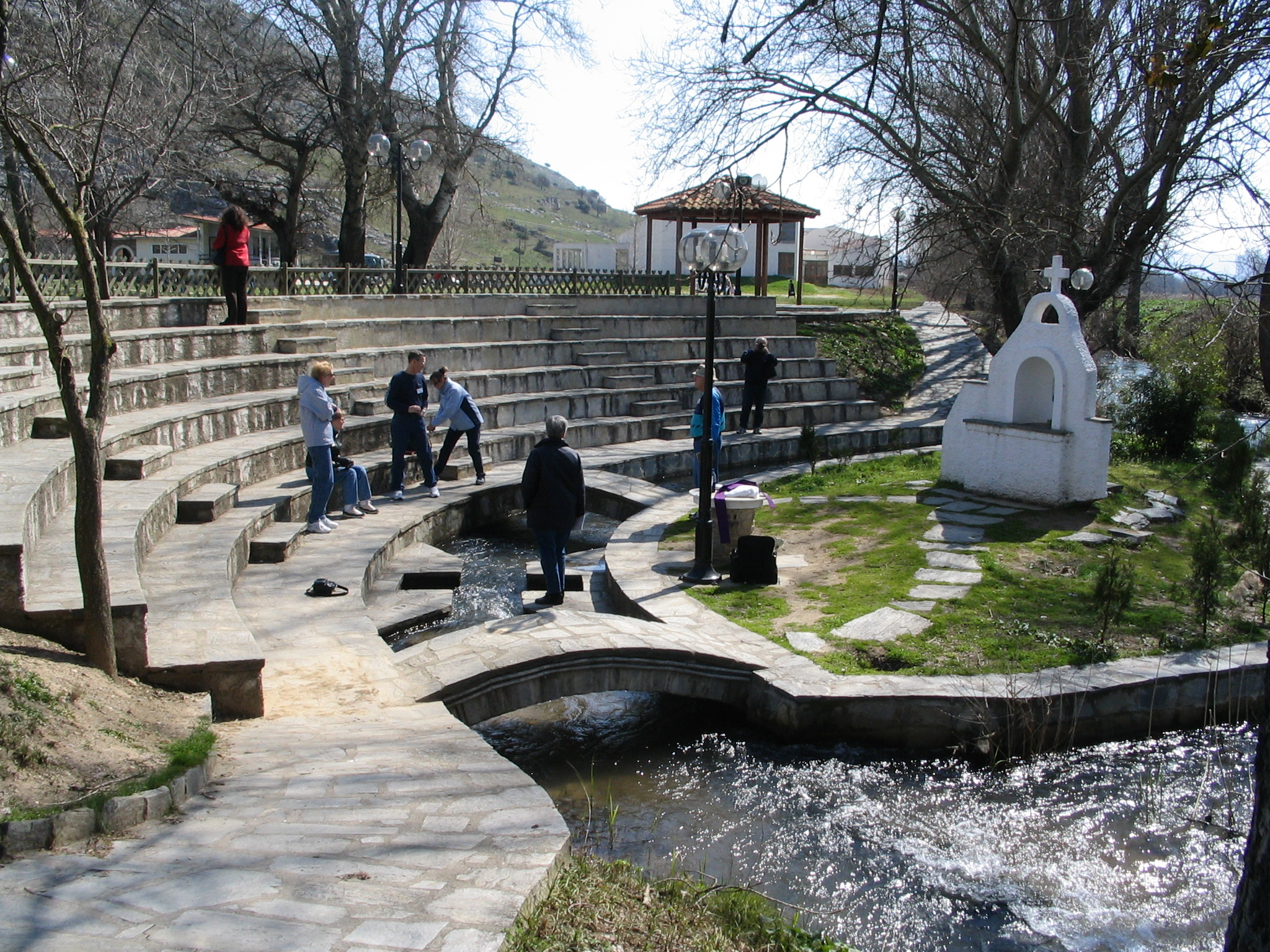 This is the modern outdoor chapel at the site where St. Paul likely baptized Lydia, the first Philippian believer in Christ. The book of Acts describes the event as taking place in the river, just outside the city, near the bridge. It appears that the small Jewish community in Philippi had been meeting there for prayer each Sabbath because they lacked a synagogue building. This site lies just outside the NW gate of Roman Philippi and only a few meters from the foundations of the Roman bridge. Nearby stands the modern Greek Orthodox chapel of St. Lydia. Between the remains of the Roman road (the via Egnatia) and the river several grave stone markers and sarcophagi are visible.